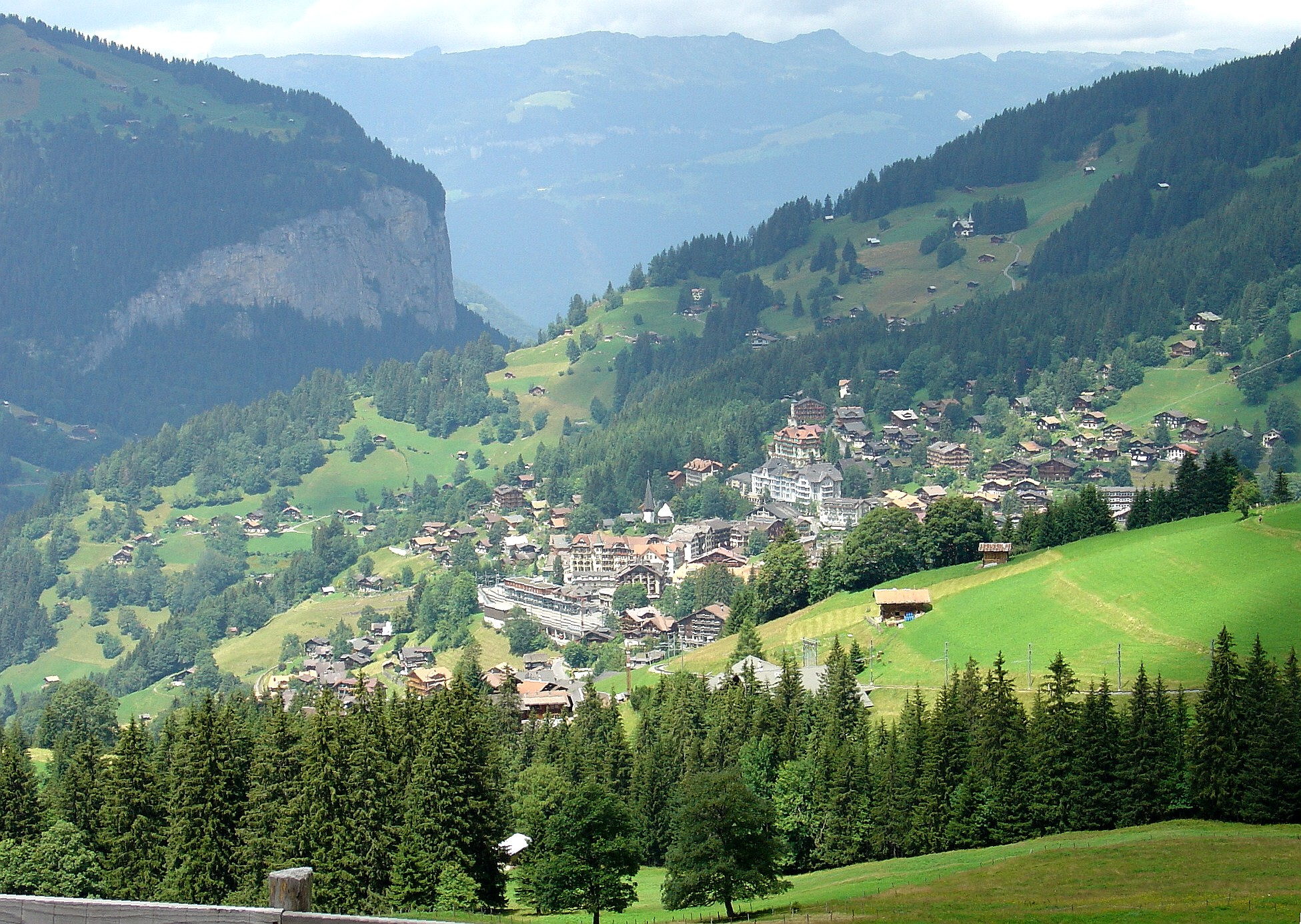 The village of Wengen, Canton of Berne, Switzerland